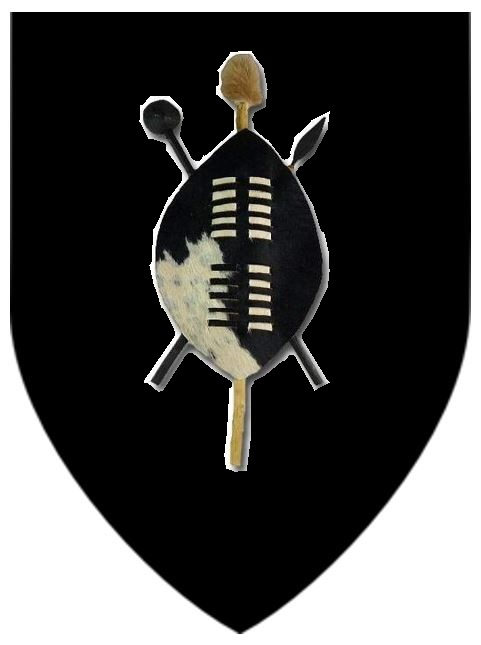 SANDF 121 SAI emblem